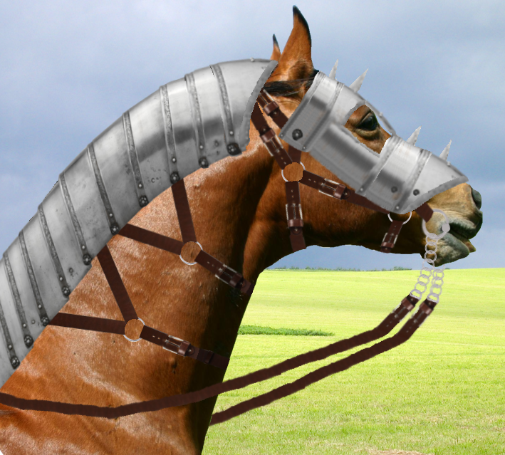 Horse in light armor. The armor consists of folgowego nakarczka and naczółka. Nakarczek covers only the top of the horse's neck, the underside is exposed. Pediment includes the top of the head and is connected to the bridle. Additionally, mounted on top of the spikes. The whole is secured to the body stripes.